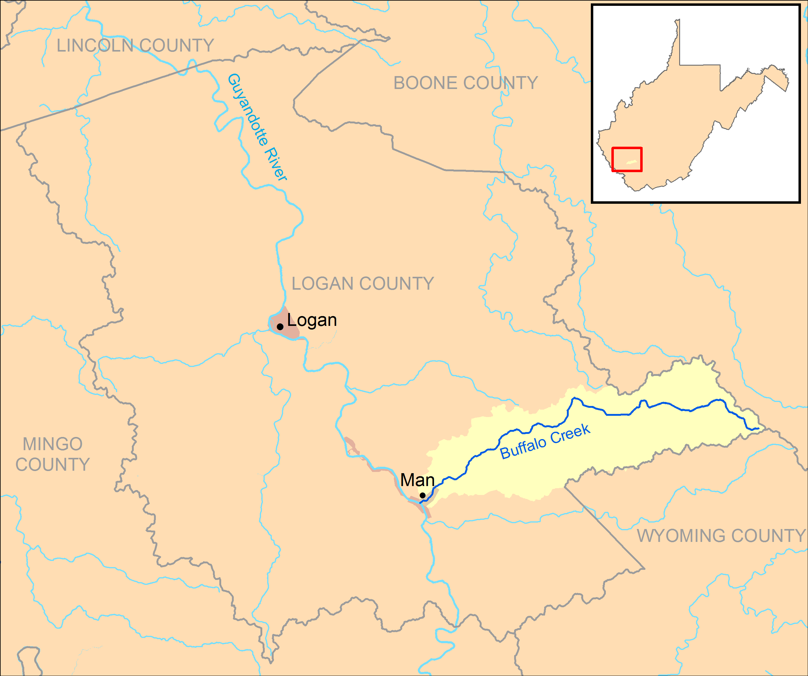 A map of Buffalo Creek and its watershed (USGS HUC-12 050701010505) in Logan County, West Virginia.